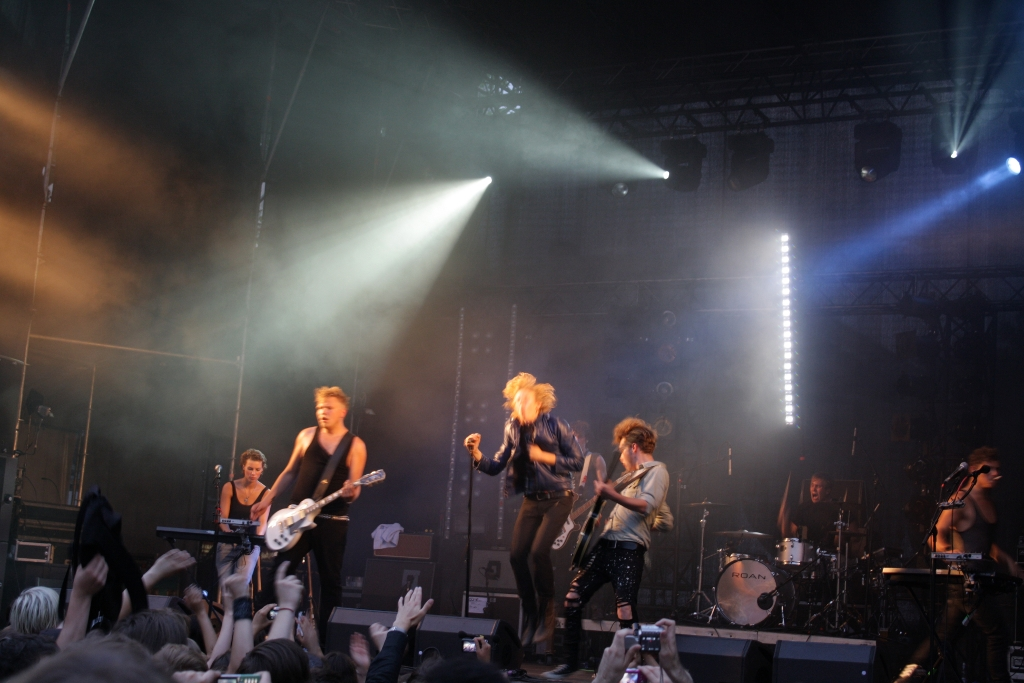 Bochum Total 2009